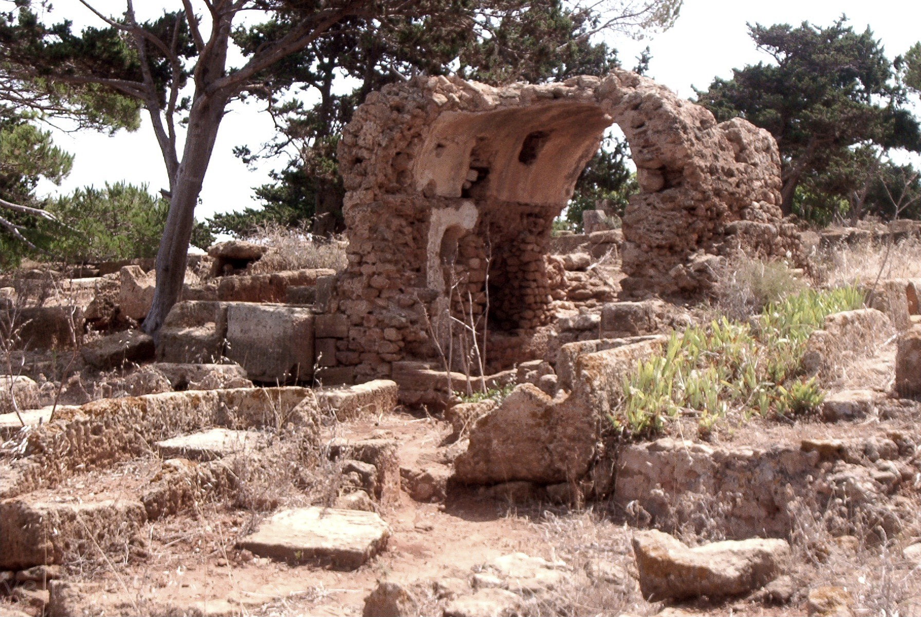 Necropolis — Ancient Roman archaeological site in Tipaza, Algeria.